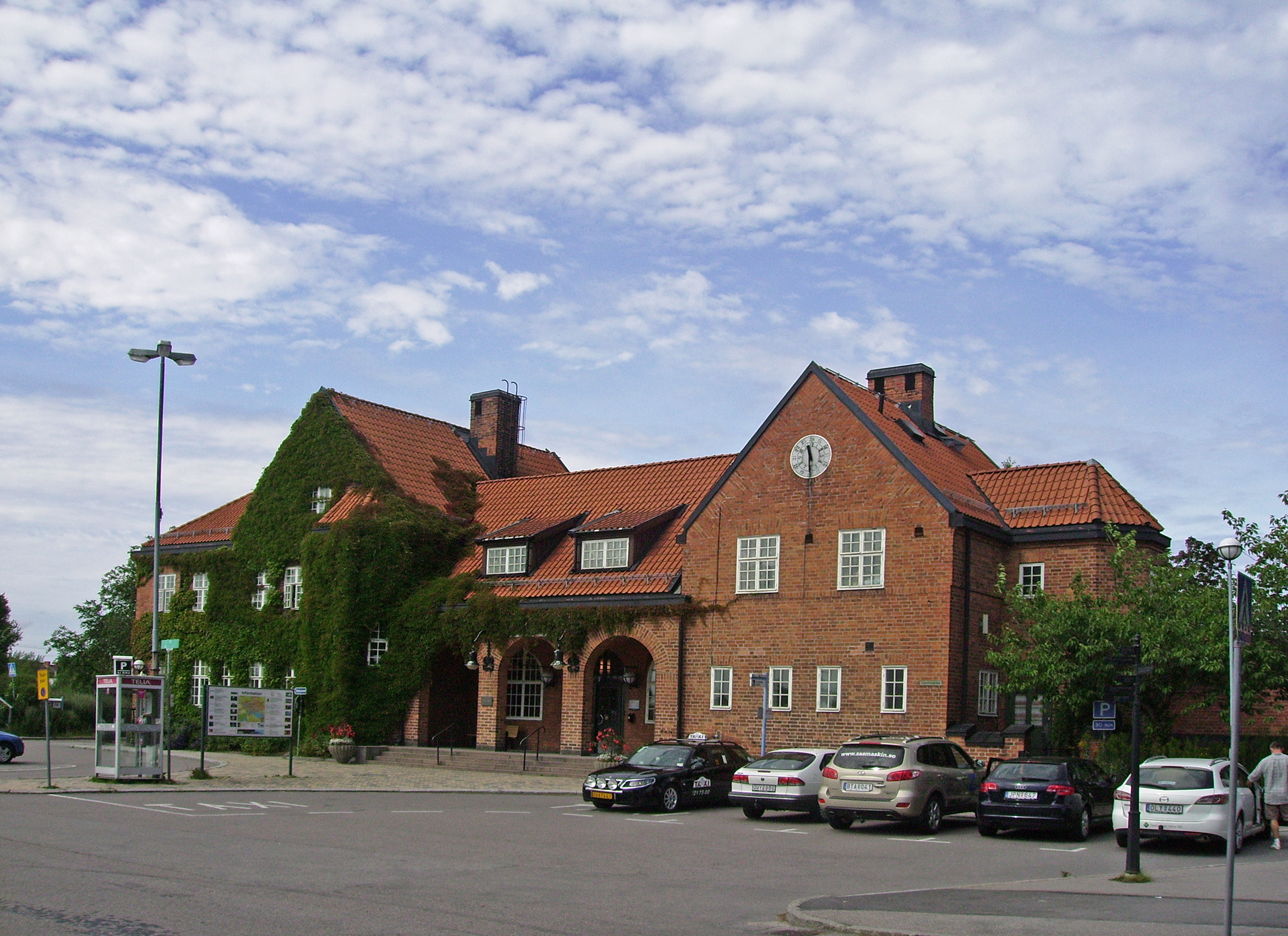 Picture of Nyköping railway station